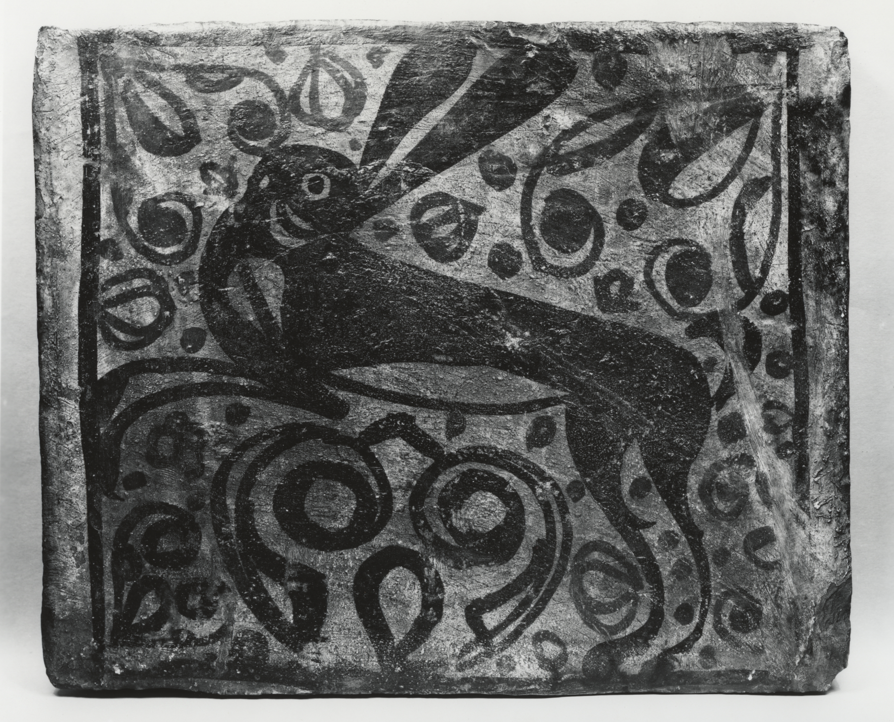 As duke of Segorbe after 1478, Spanish Crown Prince Enrique de Aragon y Sicilia (1445-1522) was also lord of the nearby towns of Paterna and Manises, centers of flourishing ceramic manufacture, from the taxation of which he derived handsome profit. The residence of the duke's representative in Paterna was appropriately known as the "Tax House" (Casa del Delme). Some two hundred ceiling tiles, this one possibly among them, decorated the building until they were sold and dispersed in 1924. The rabbit on it refers to hunting, a pastime reserved for aristocrats.